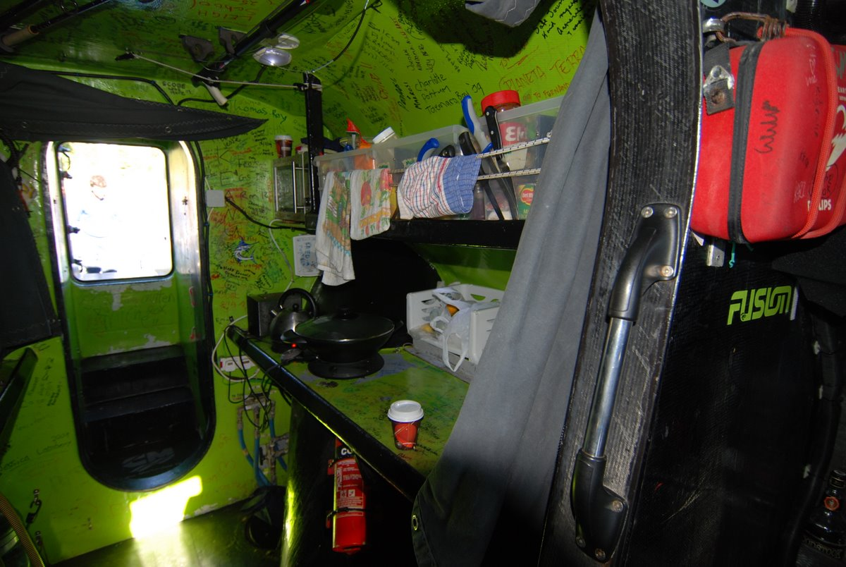 Surprisingly roomy, albeit basic. Galley and work area in aft of cabin.